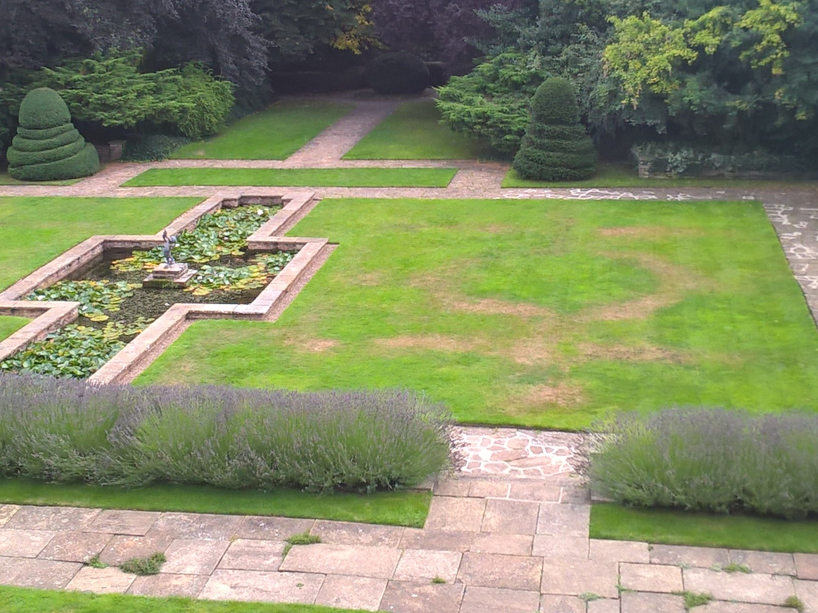 Goddards House and Garden, York (Grade I Listed building - Ref no. 1256461) - August 2018. View of the lily pool and part of former rose garden, the layout of which can been seen by cropmarks on the lawn.